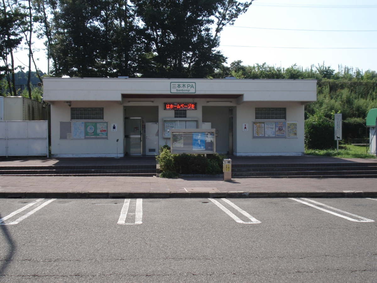 This rest area, Sanbongi Parking Area（for Aomori）, is on Tohoku Expressway, in Osaki city, Miyagi Prefecture, Japan.